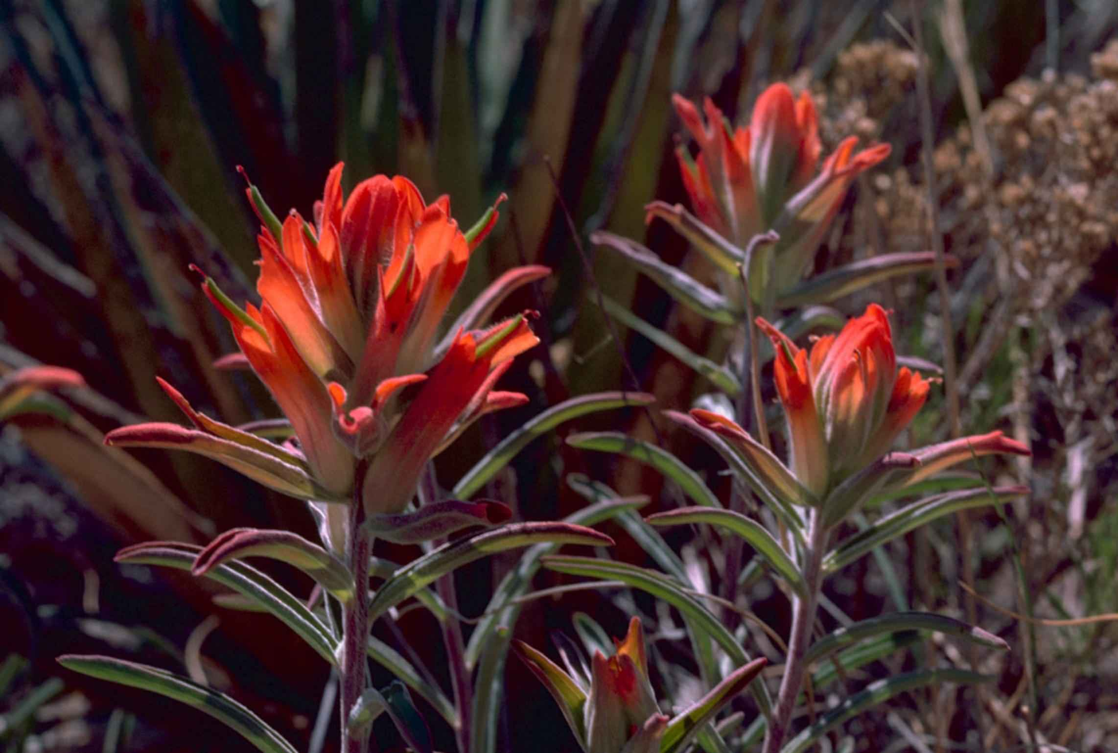 Image title: Indian paintbrush plants castilleja coccinea Image from Public domain images website